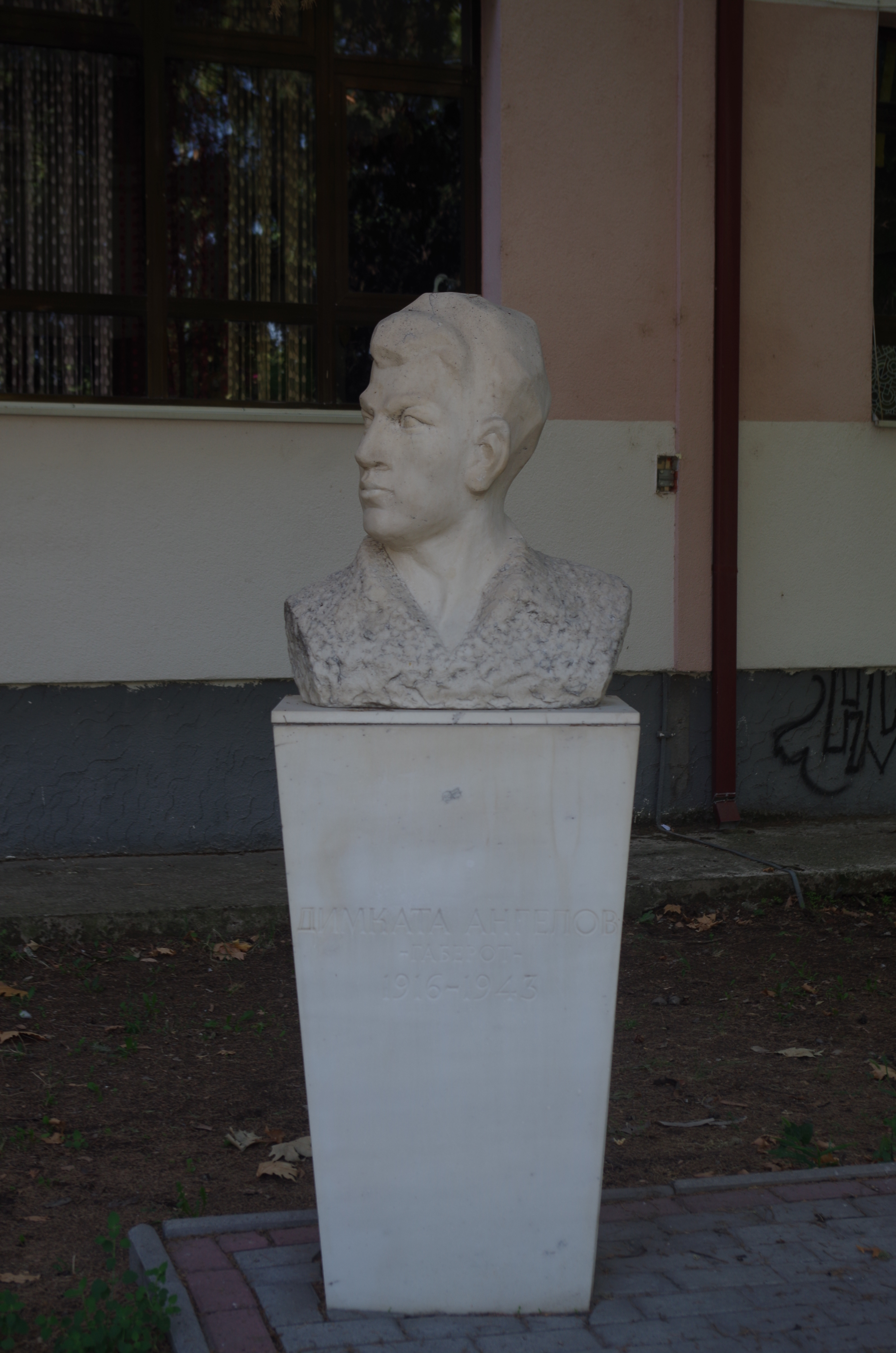 Monument of Dimkata Angelov - Gaberot (1916-1943) in the village of Vataša